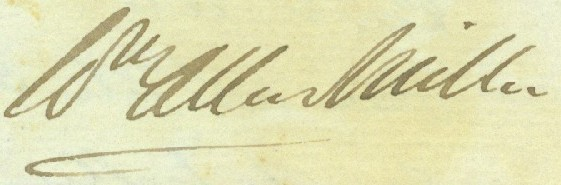 Signature of William Allen Miller, the pioneering astrochemist